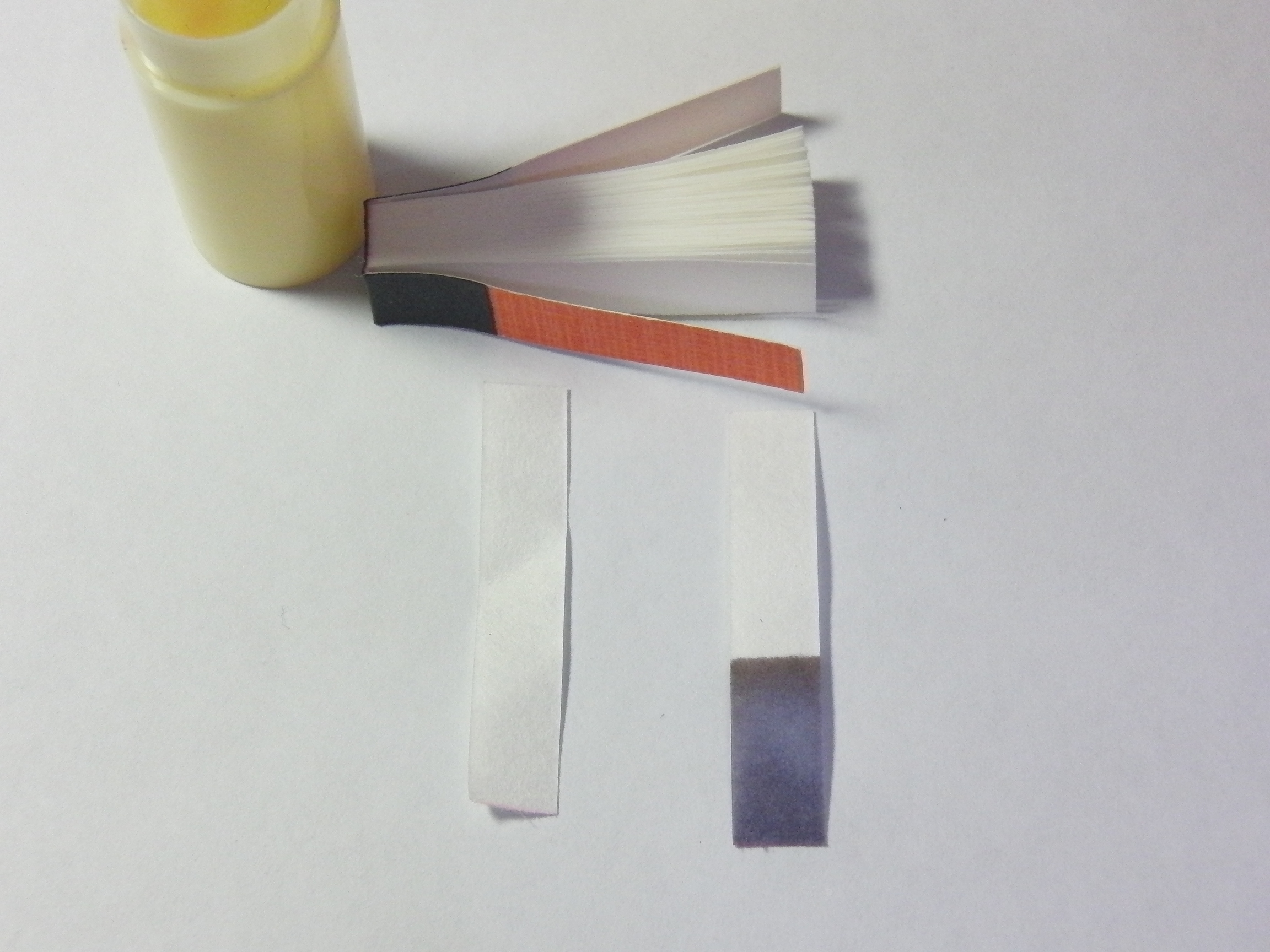 KI test paper